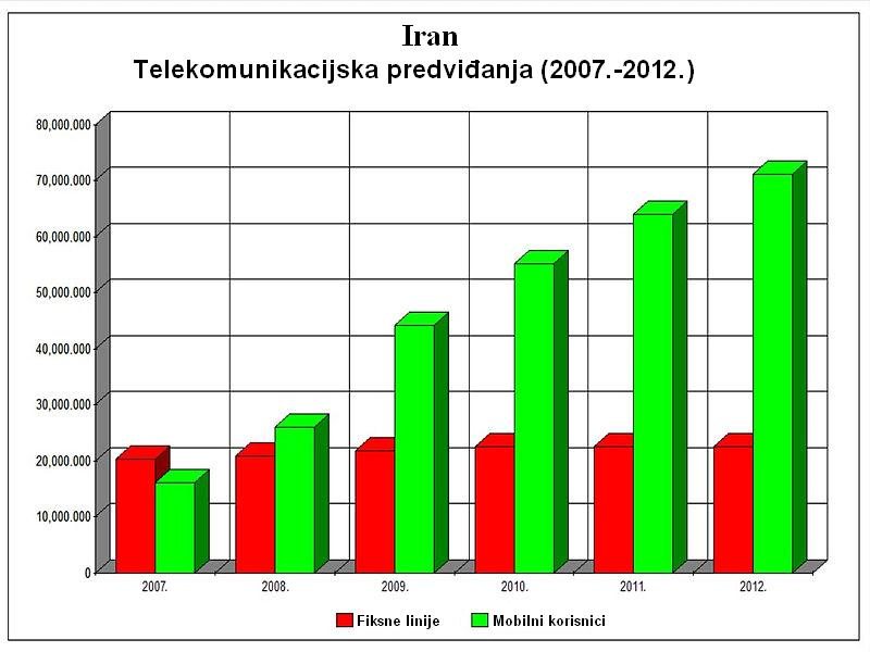 Iran Telecom Forecast. (Sources for data: Pyramid Research; IDC; Economist Intelligence Unit.)